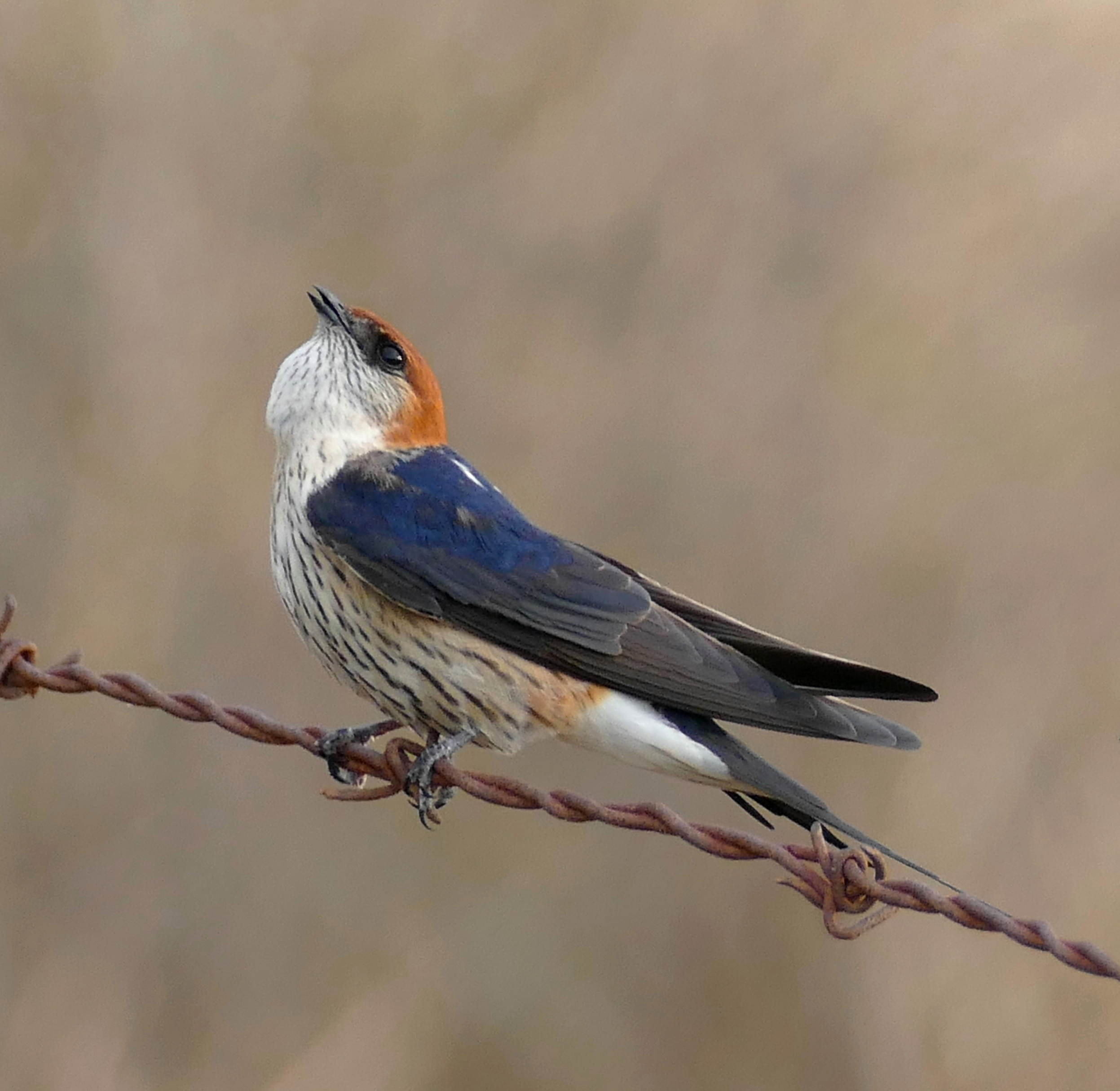 A singing Greater-striped swallow in Mountain Zebra NP, Eastern Cape, SOUTH AFRICA